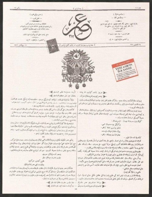 Asir newspaper